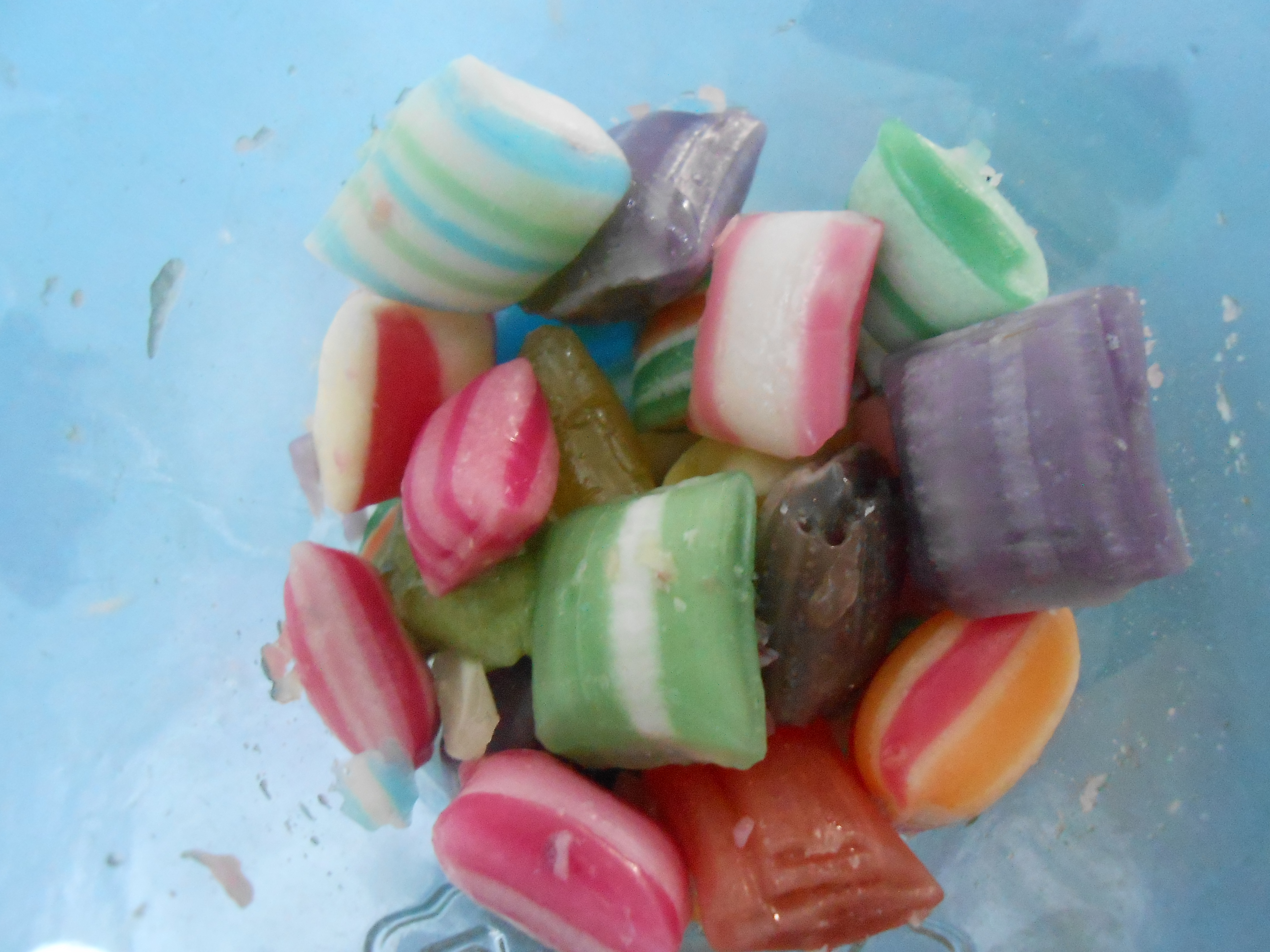 bremen suggar